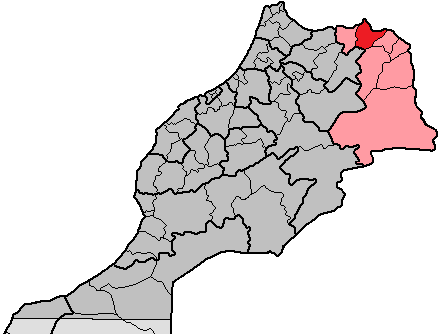 Location of the province Nador within the region Oriental, Morocco. In total, Morocco has 16 regions, subdivided into 62 provinces and 13 prefectures.